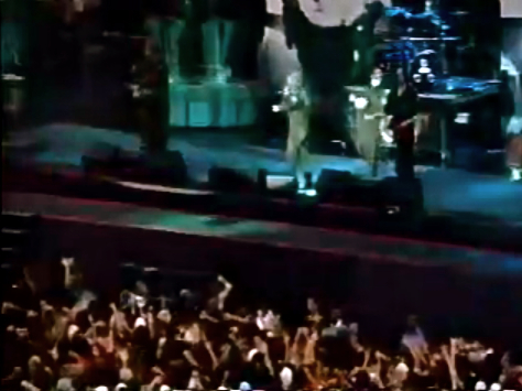 Picture of Slipknot performing at Summer Sonic